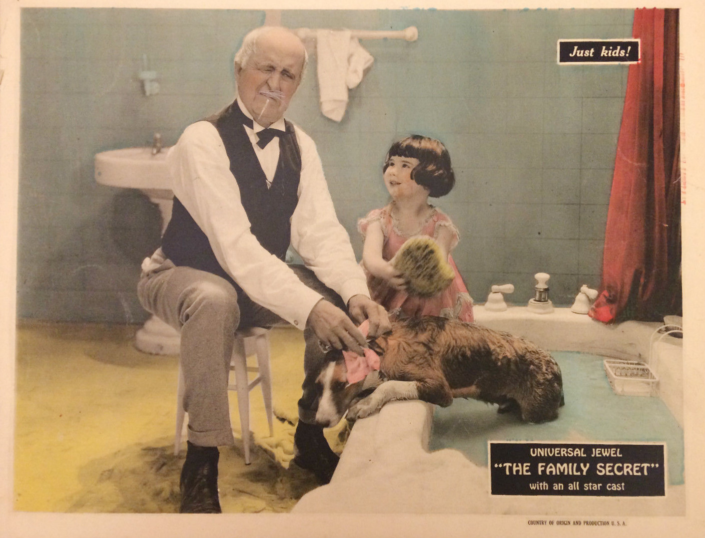 Lobby card for the American film The Family Secret (1924).